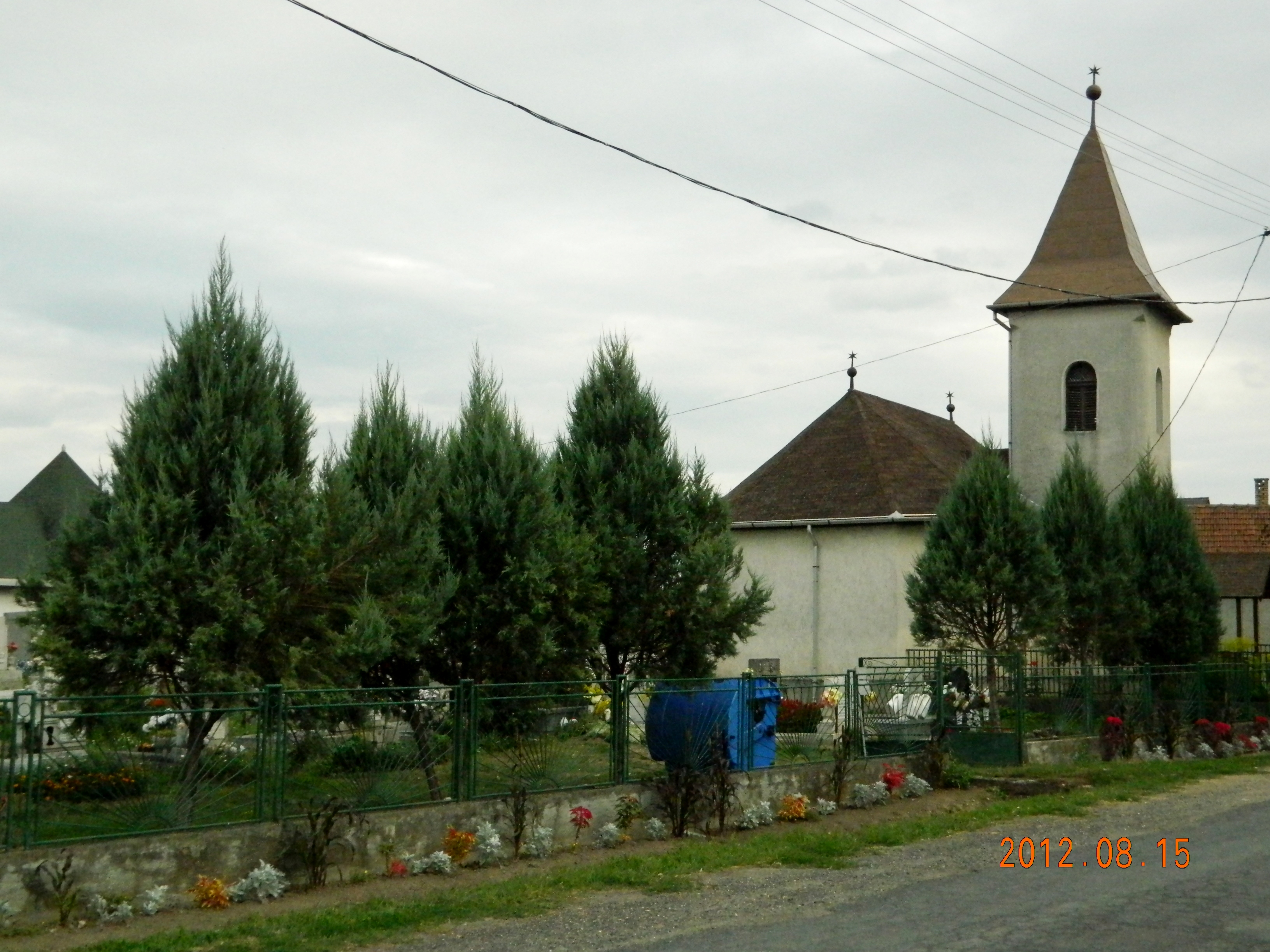 Calvinist church in Felsoberecki